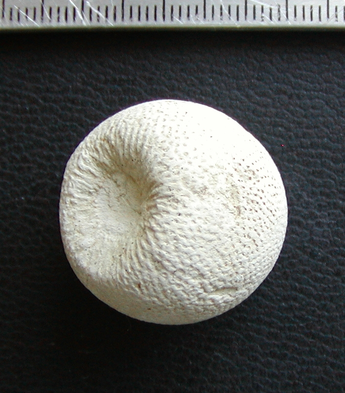 Porocystis globularis (Giebel), an algal fruiting body, This is a fossil algae is body from the Lower Glen Rose of Central Texas